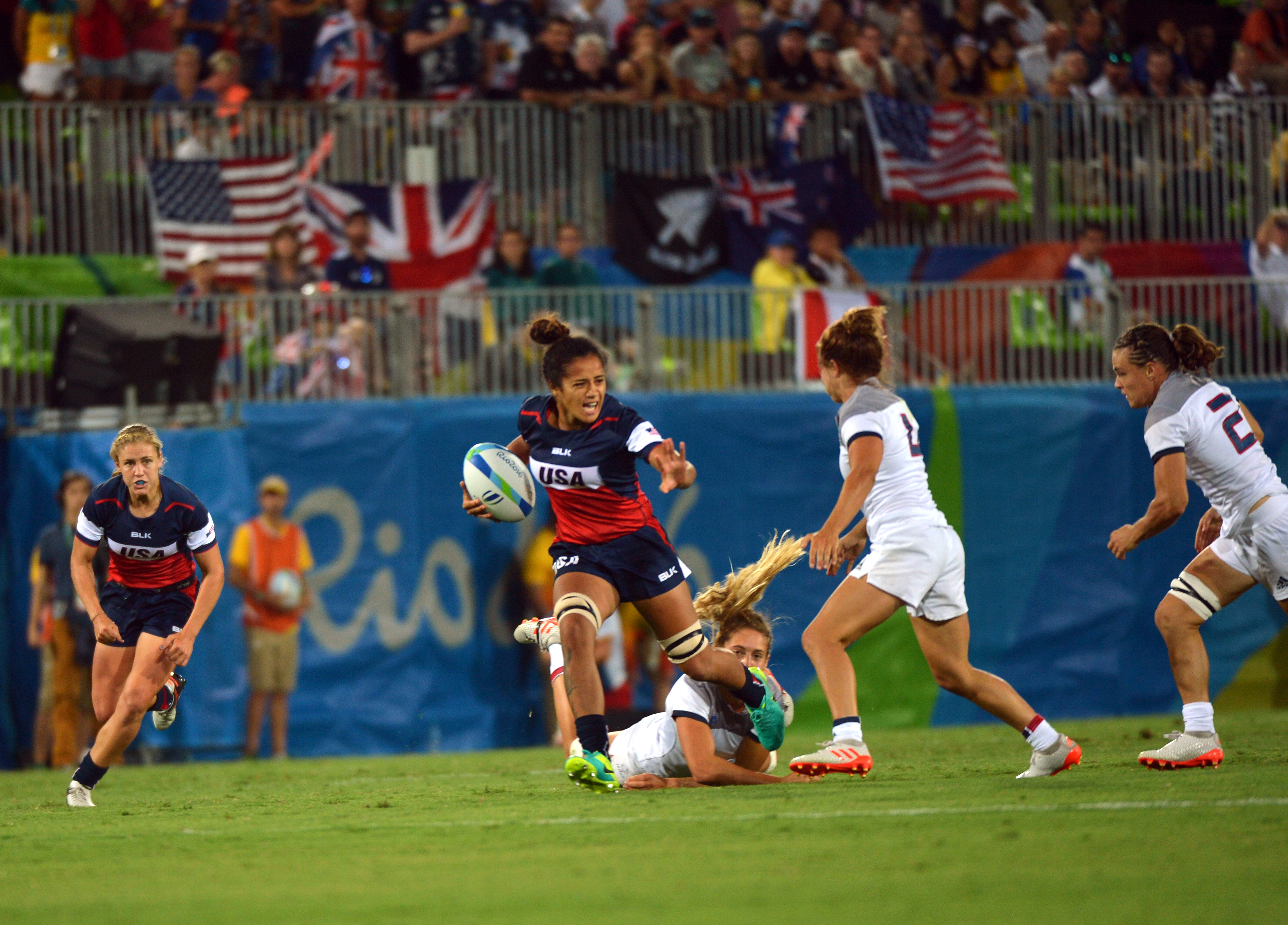 The U.S. women's rugby sevens squad, seen here posting 19-5 victory over France on Aug. 8, played smothering defense orchestrated by U.S. Army Capt. Andrew Locke en route to a fifth-place finish in the Rio Olympic Games tournament at Deodoro Stadium in Rio de Janeiro. U.S. Army photo by Tim Hipps, IMCOM Public Affairs